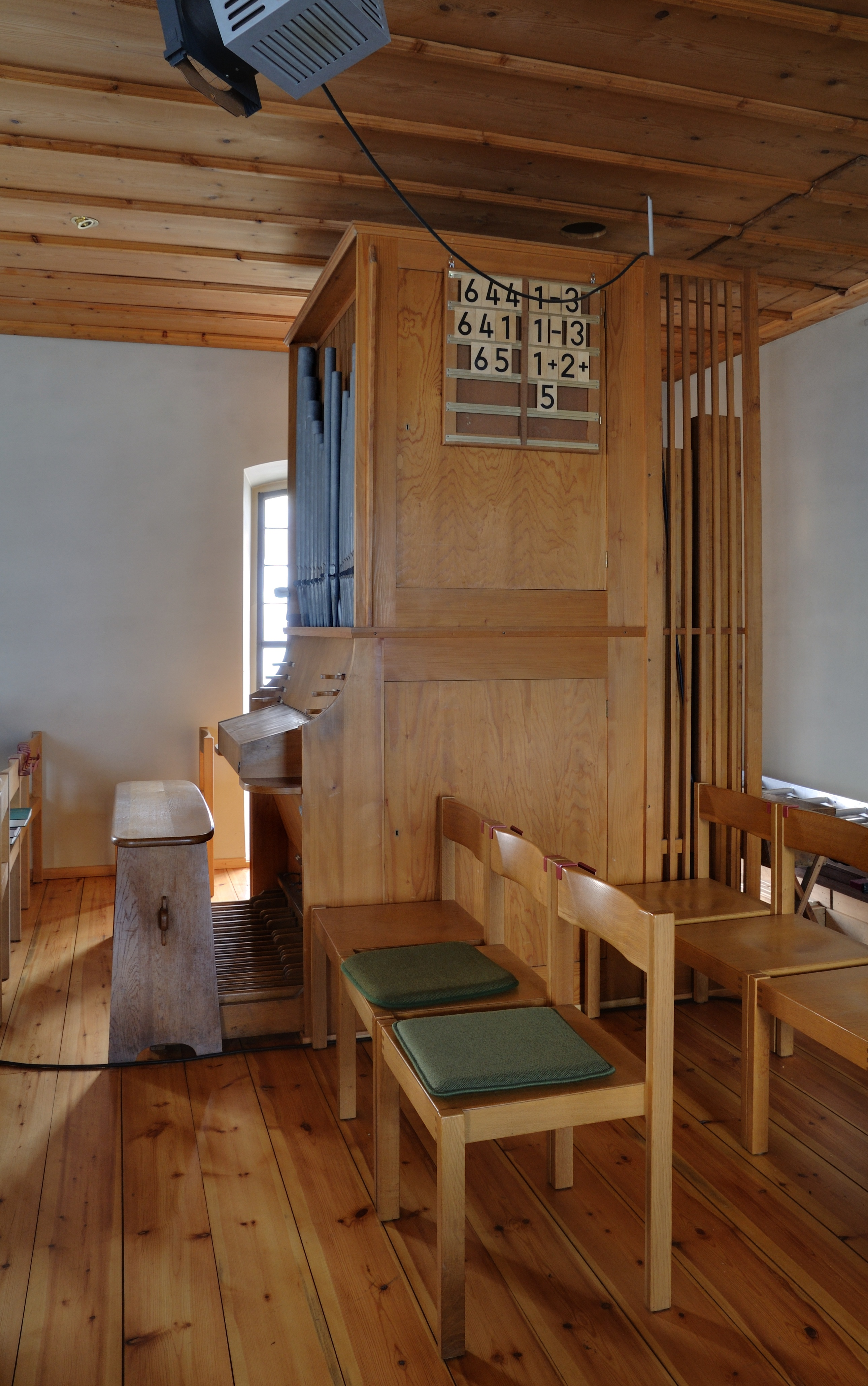 Wintersweiler: Protestant Church